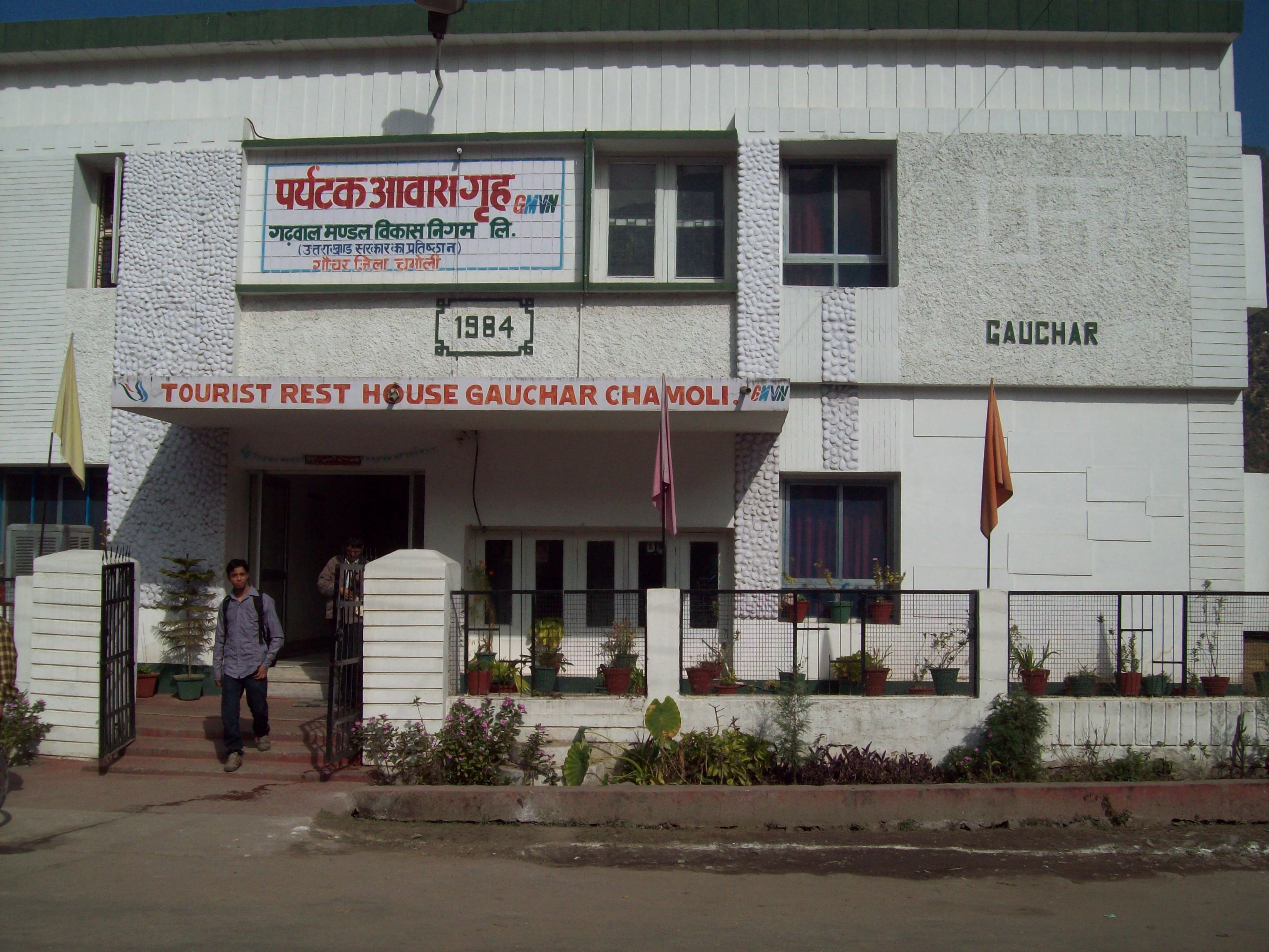 Gauchar is a small town located in Karnaprayag tehsil within Chamoli district of Uttarakhand state in India. Gauchar is situated on the left bank of river Alaknanda and is en route the celebrated holy destination of Badrinath.